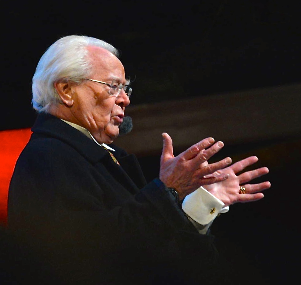 Jan Malmsjö read Tennyson's Ring Out, Wild Bells on New Year's Eve December 31, 2013 just before midnight.